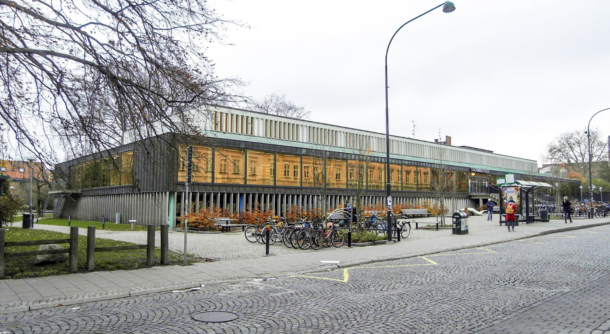 This is the City Library (Swedish: Stadsbiblioteket) in the city of Lund. The whole facade of the building is seen in the picture.